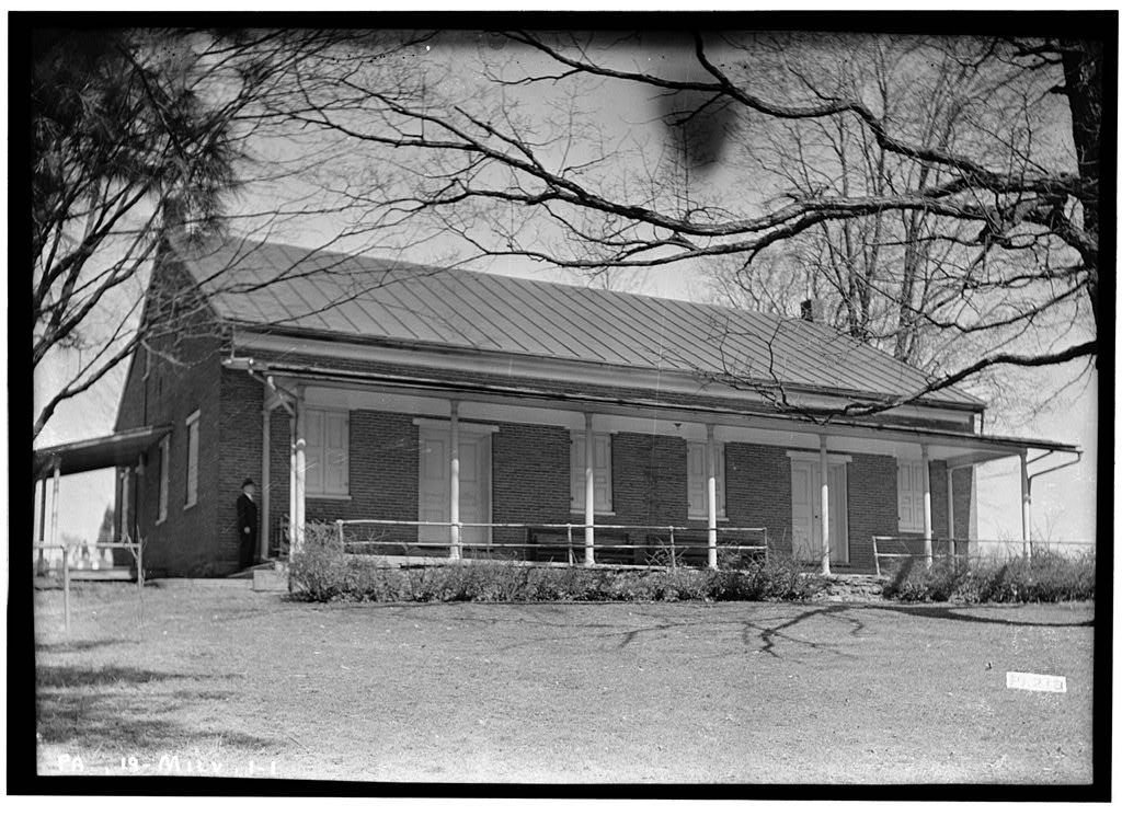 Image of Millville Friends Meeting House circa 1936. Taken during HABS PA-218 survey.